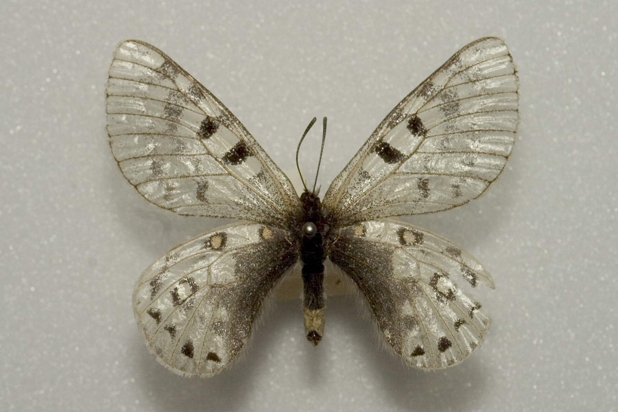 Parnassius acco Gray, 1853 Female Sangtha Ladak 14,000 ft. 8.8.1923 Specimen determination confirmed by Robert Nash and Curt Eisner Own photograph. Photography by Brian MecKenna